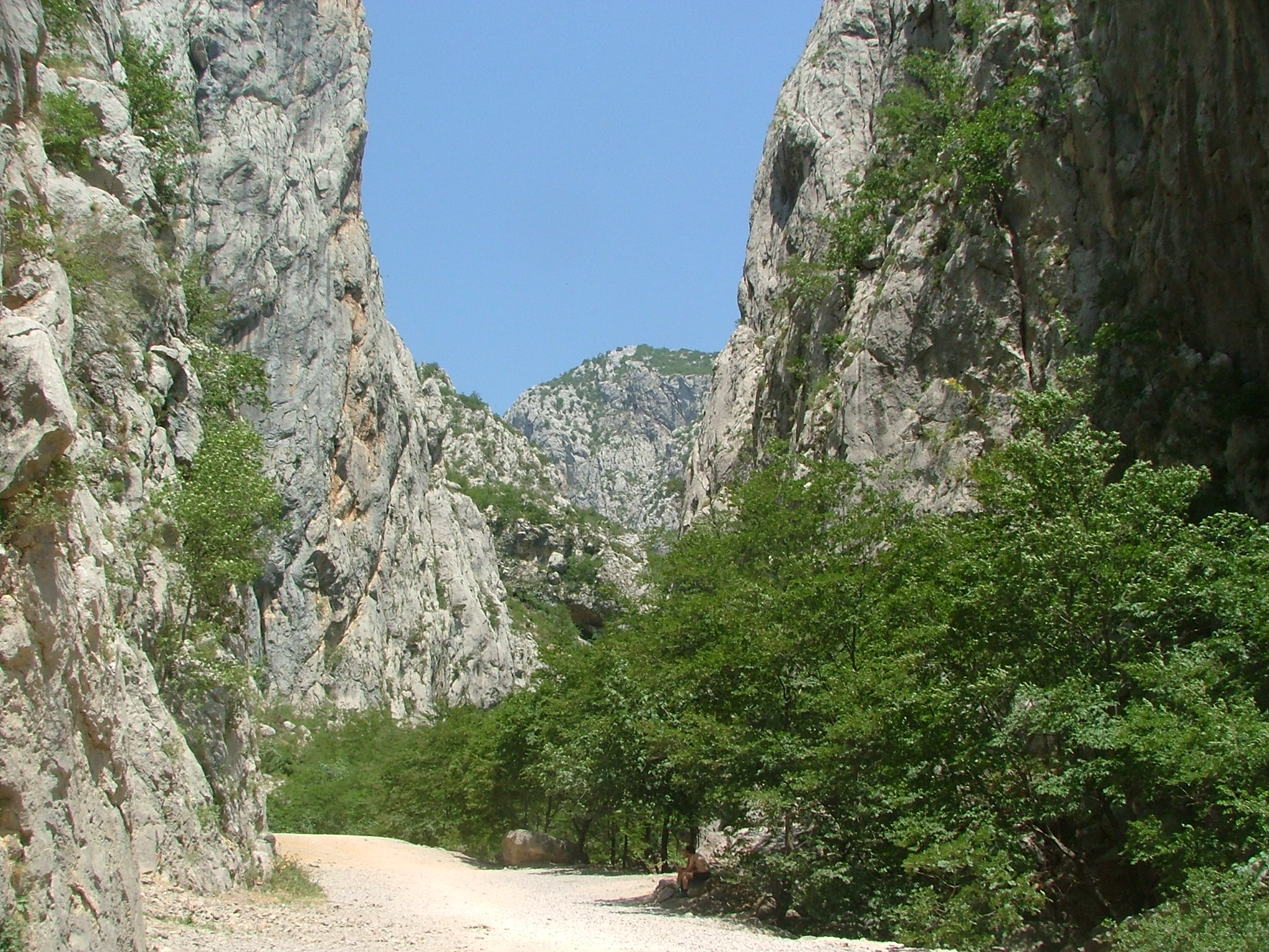 Valley in the National Park of Paklenica, Croatia